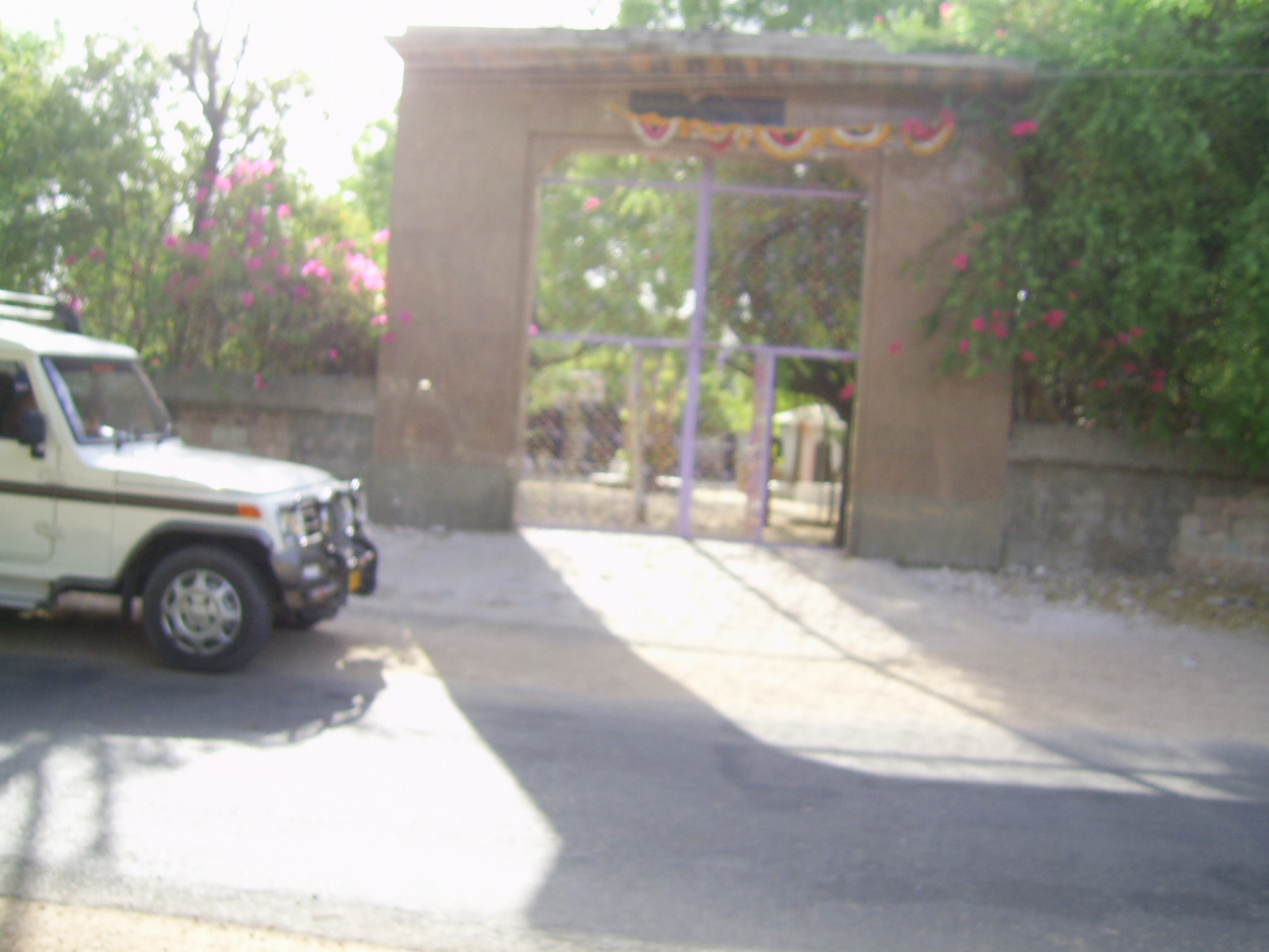 Picturseque temple of Baba Ramdev Pir situated in the outskirts of Santhu village in Jalore district of Rajasthan state in India.